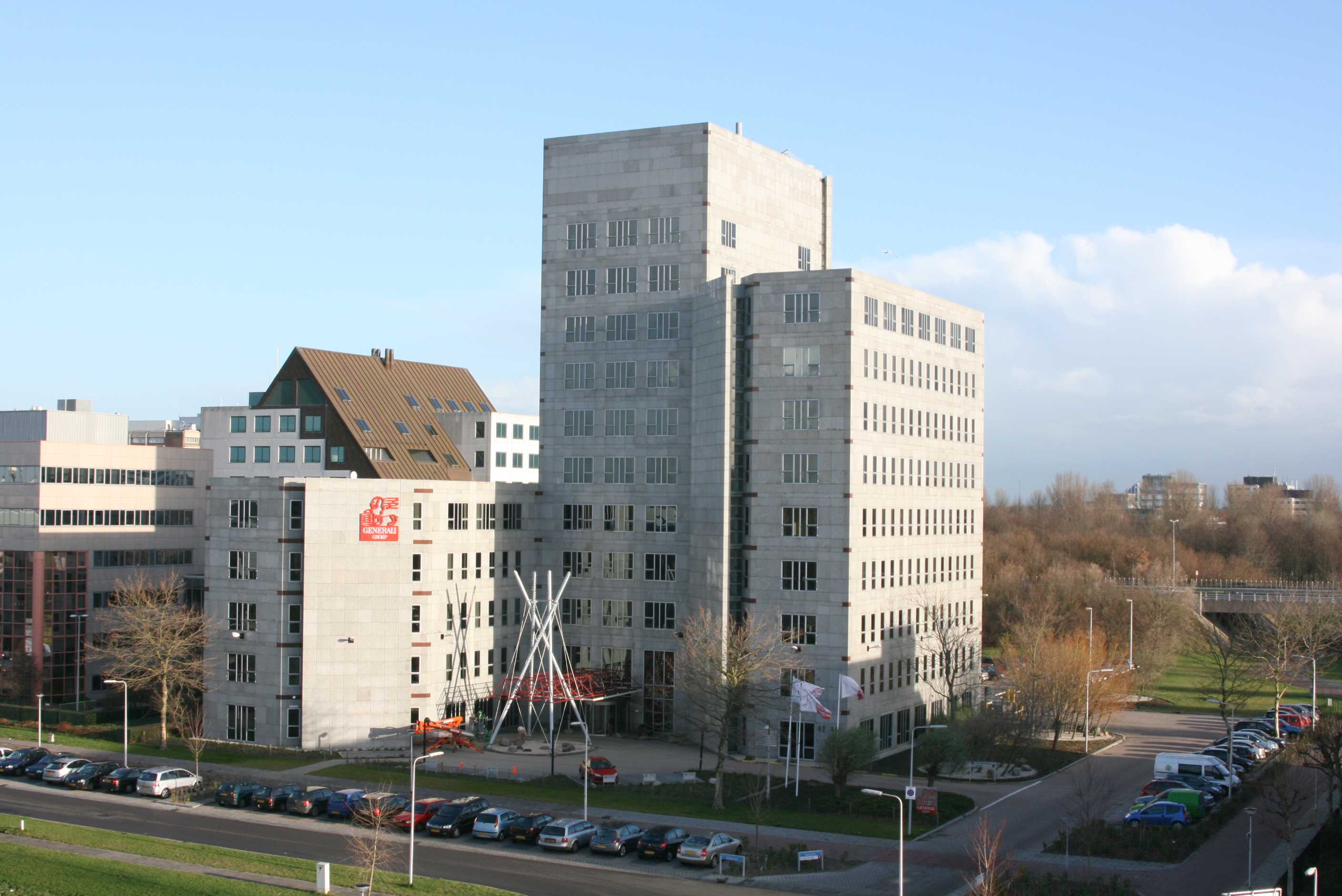 Generali Diemen